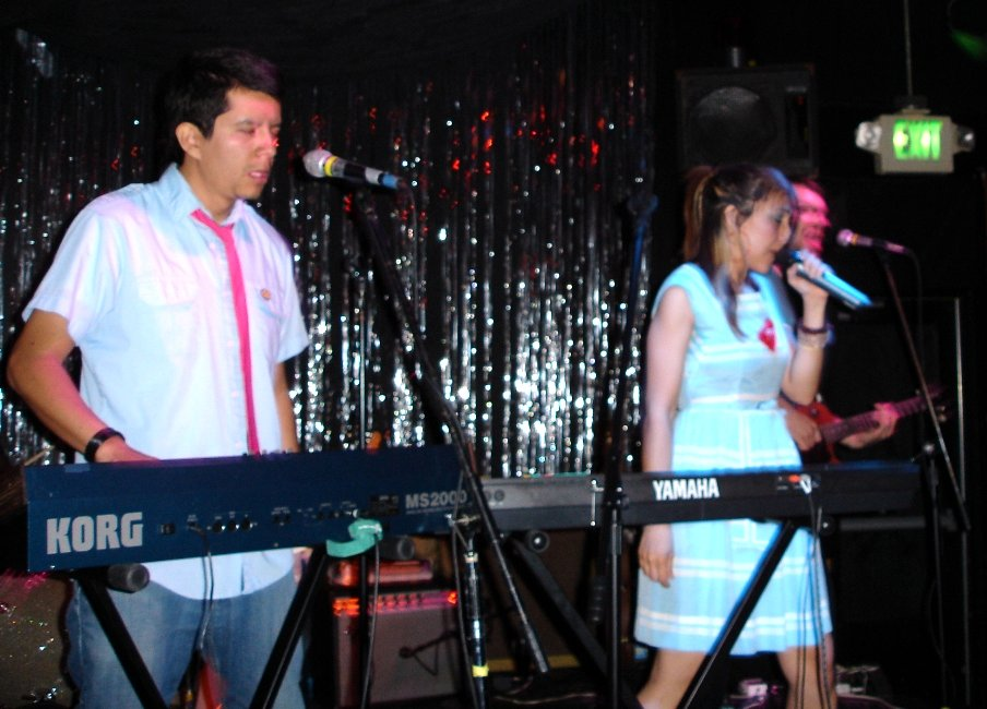 Los Abandoned performing at The Blank Club in San Jose, California, United States